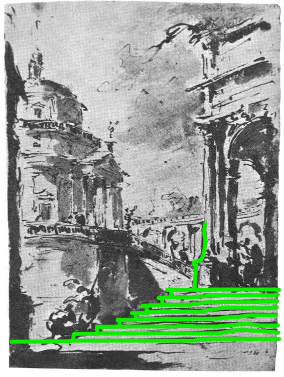 Ascent and Descent